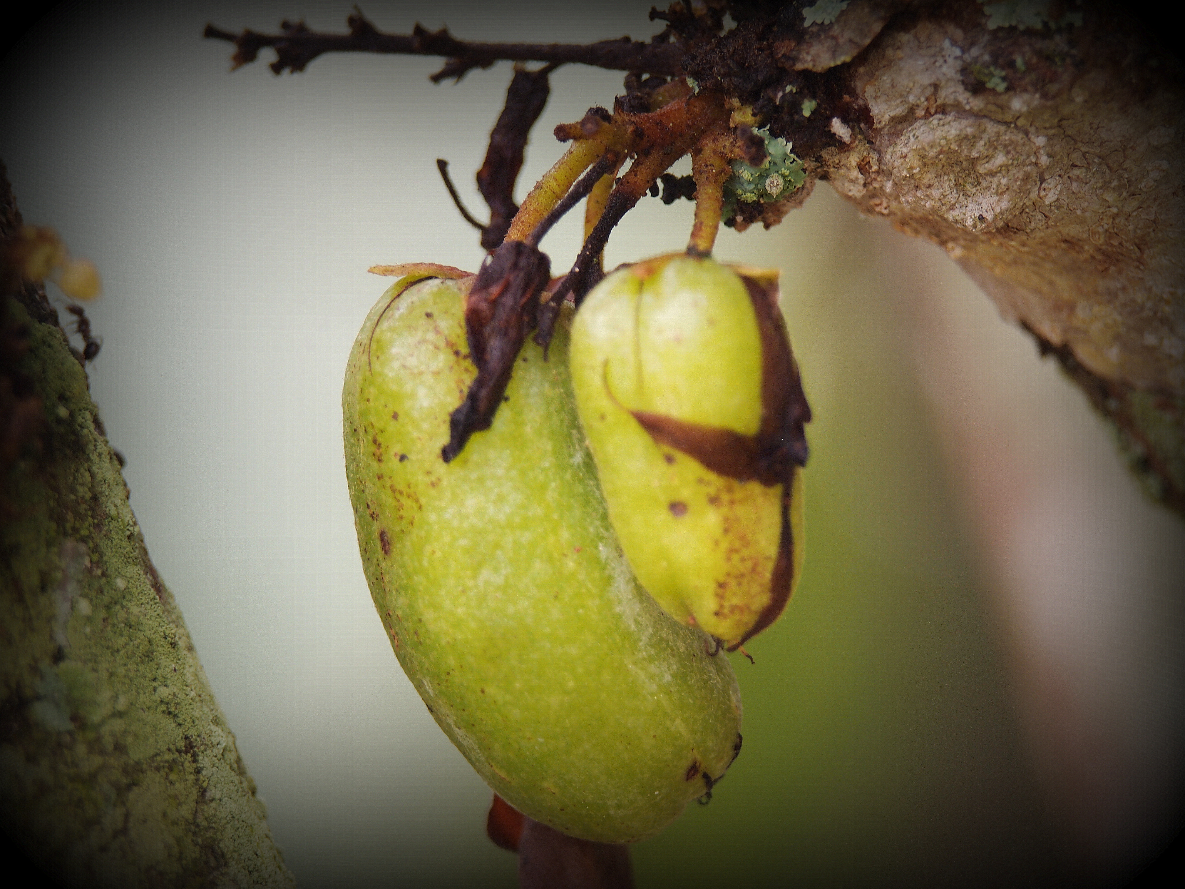 Averrhoa bilimbi fruit in Malaysia